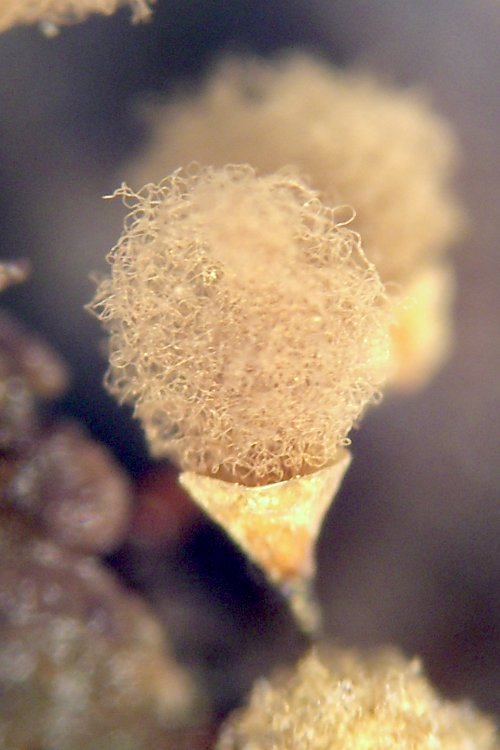 Scientific Name: Hemitrichia clavata (Pers.) Rost. Common Name: Yellow-Fuzz Cone Slime Certainty: positive (notes) Location: Southern Appalachians; Smokies; CabinCove Fuzz-ball and cone, at 30x. This is probably Hemitrichia calyculata, watch the transition between the stem and the upper part and the well-shaped capillitium.